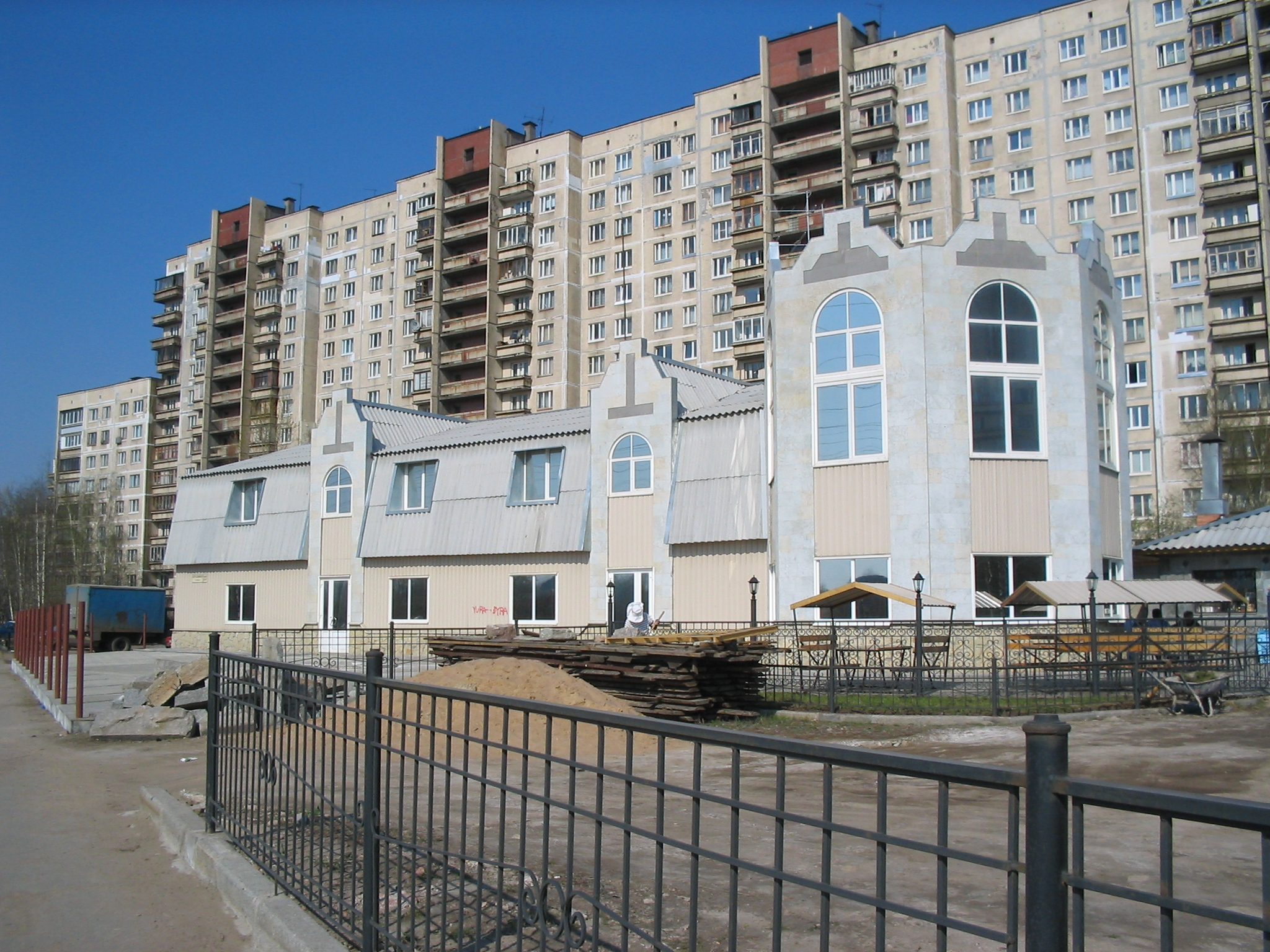 27 Peredovikov St St. Petersburg